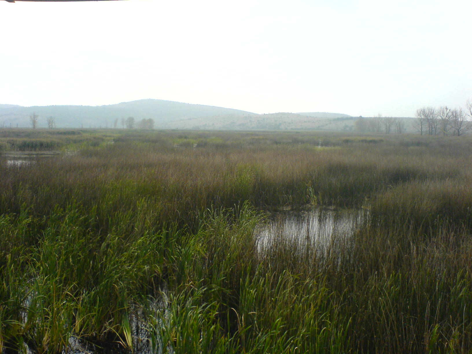 Драгоманско блато (Dragoman marsh, near city of Dragoman, Bulgaria 2006) Autor:Biser Todorov